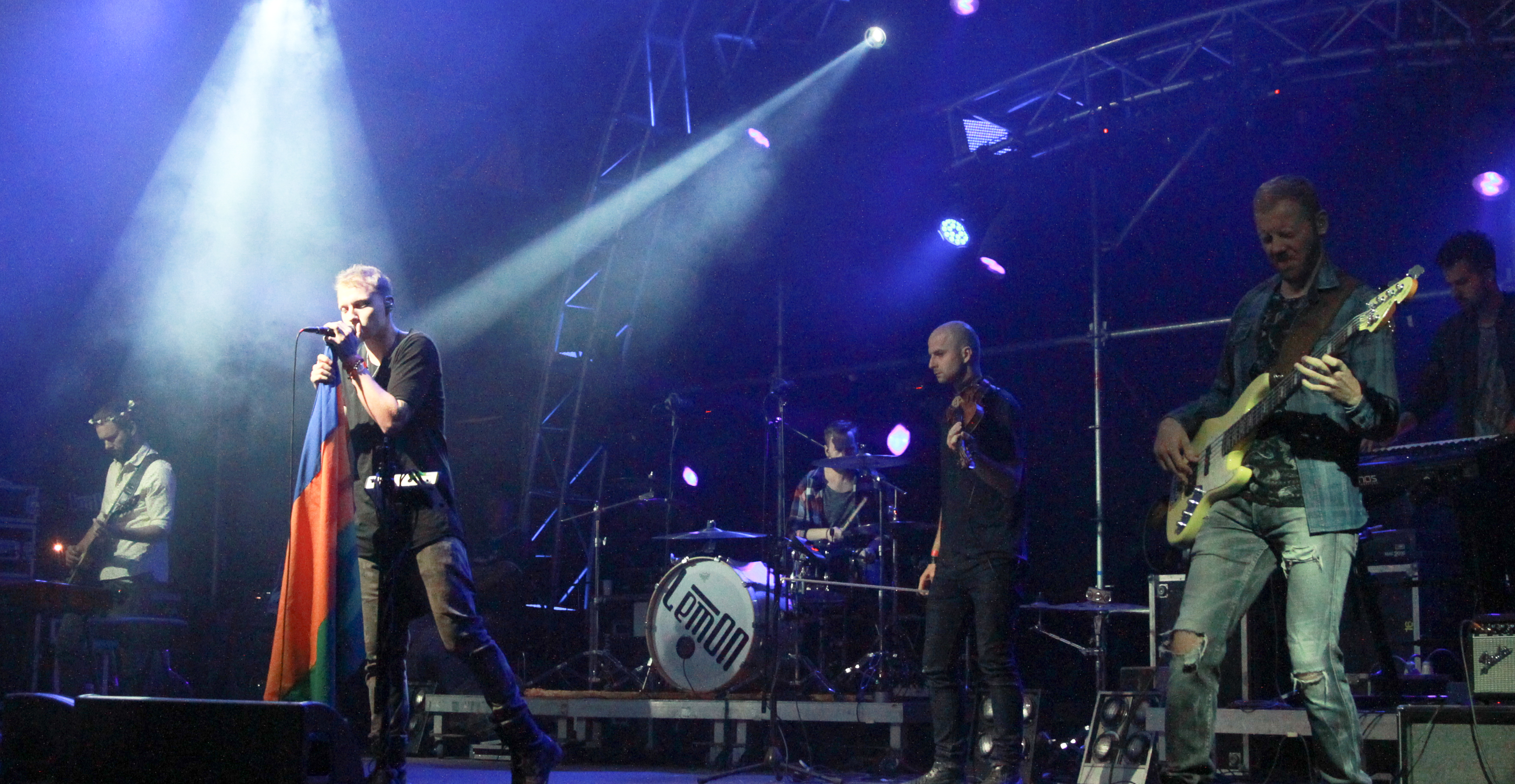 Przystanek Woodstock in 2015.